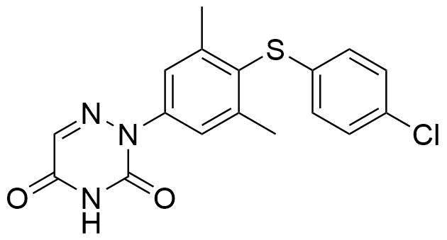 M. W. Miller, German Patent 2,149,645 (1972); Chem. Abstr., 77: 164712Z (1972).